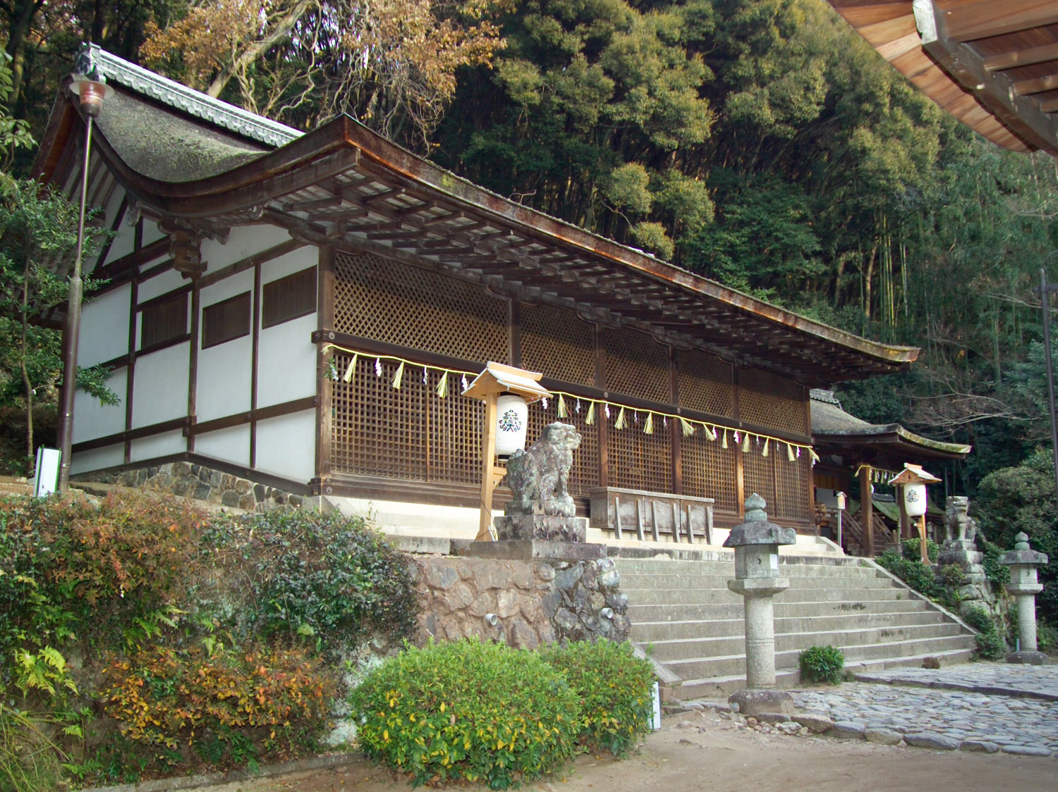 This is the honden at the Ujigami Jinja, a shrine in the city of Uji, Kyoto prefecture. I took the photo and contribute my rights in the file to the public domain; individuals and organizations retain rights to images in the file. National Treasure.